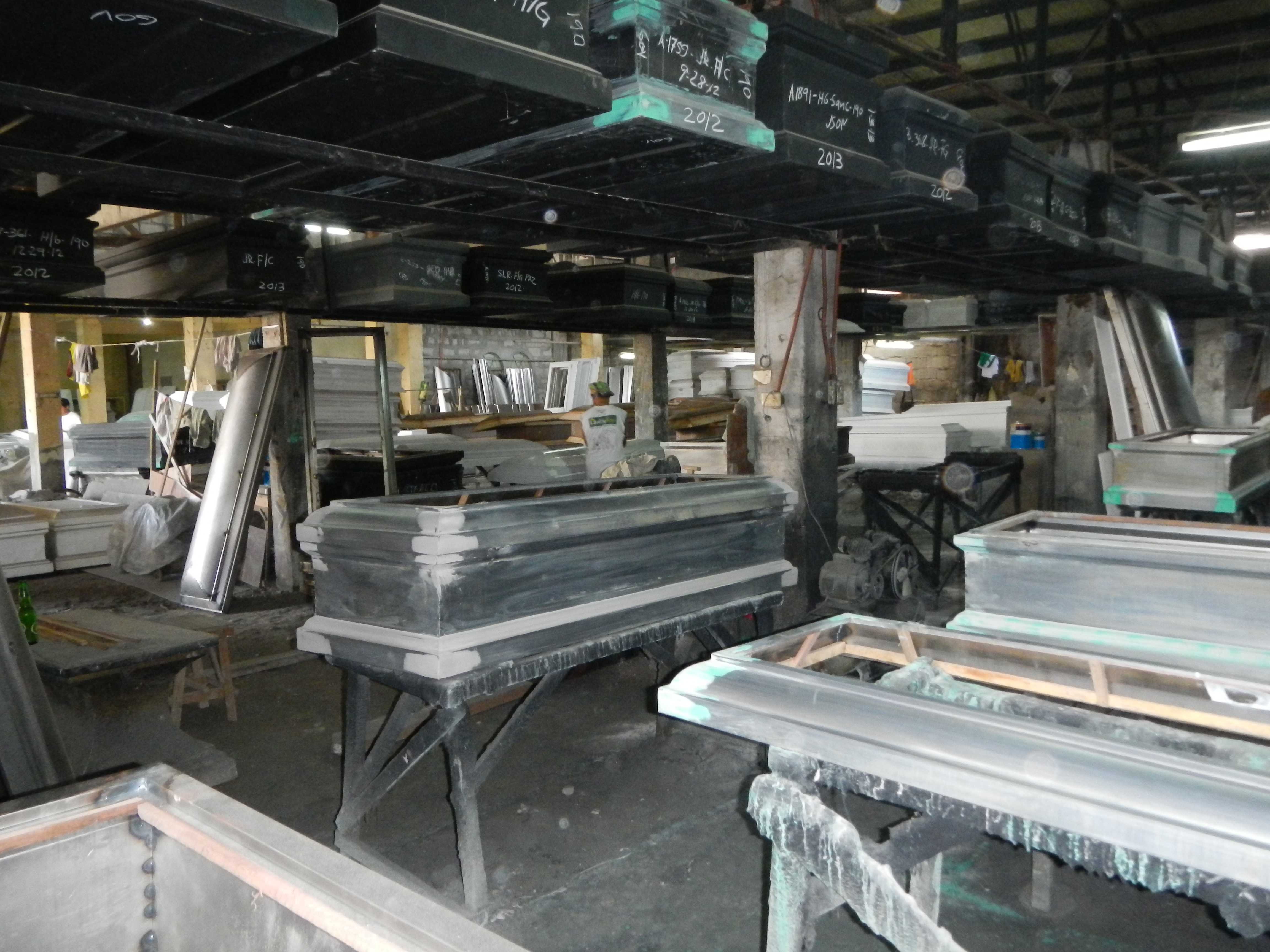 Santo Tomas, Pampanga[1][2] ( Sabuaga Festival and Casket capital of the Philippines)[3][4]Mayor Lucas Arceo casket factory